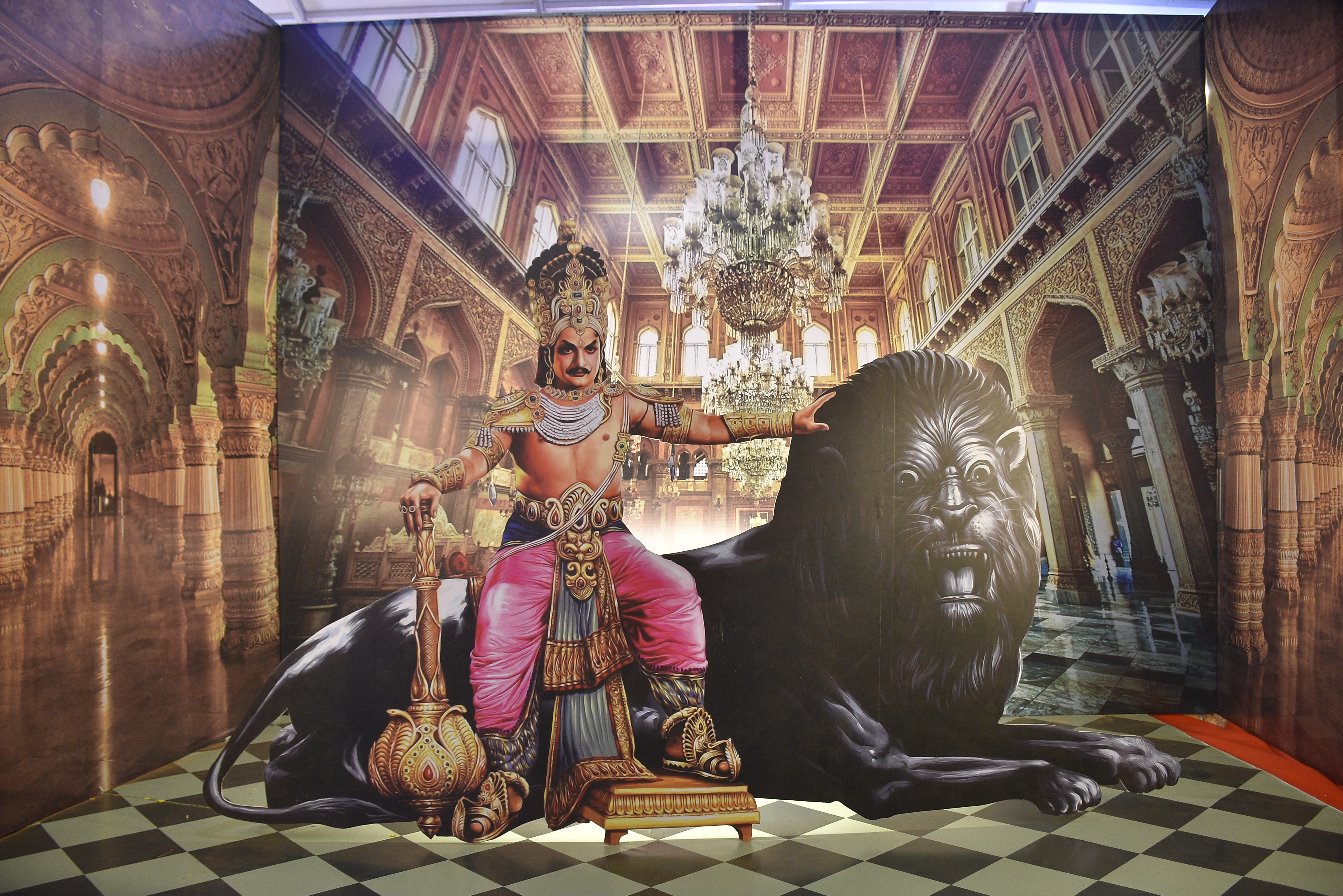 Telugu Vari Jnapakam - a temporary museum in memory of Nandamuri Taraka Ramarao.